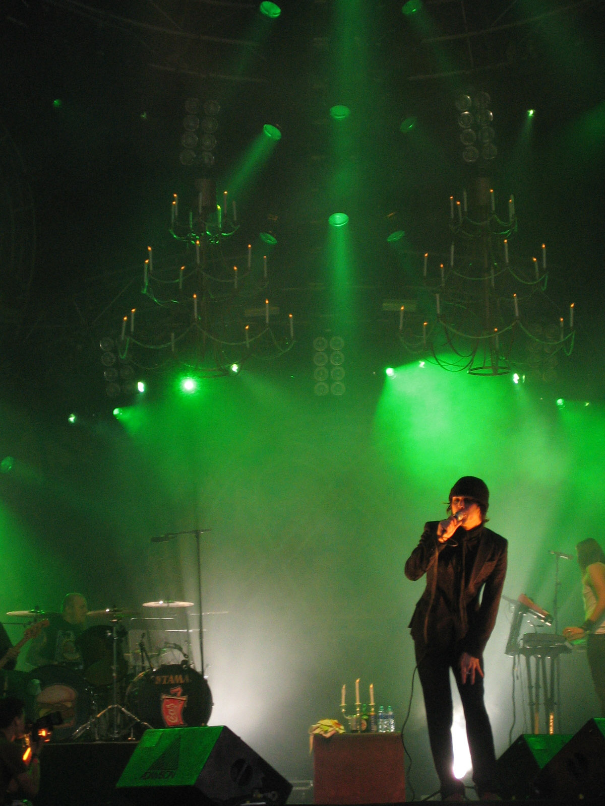 Ville Valo, HIM. Provinssirock 2006, Finland.